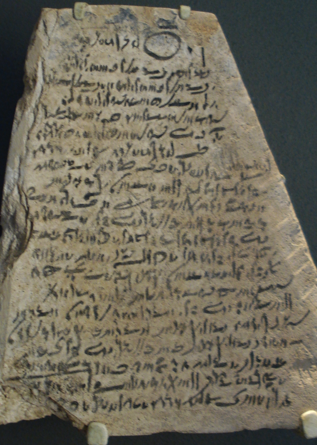 Ostracon with Demotic inscription. Limestone. Ptolemaic Period, c. 305-30 BC-(?330-305 BC?). Probably from Thebes. It is a prayer to the god Amun to heal a man's blindness. It concludes: "Return to me, my great lord, Amun. I am defenseless. Let me not perish. Do not forget me."